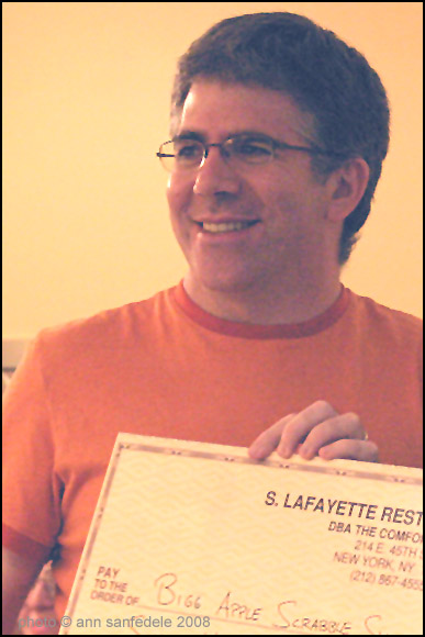 Brian Cappelletto, Scrabble champion, in 2008